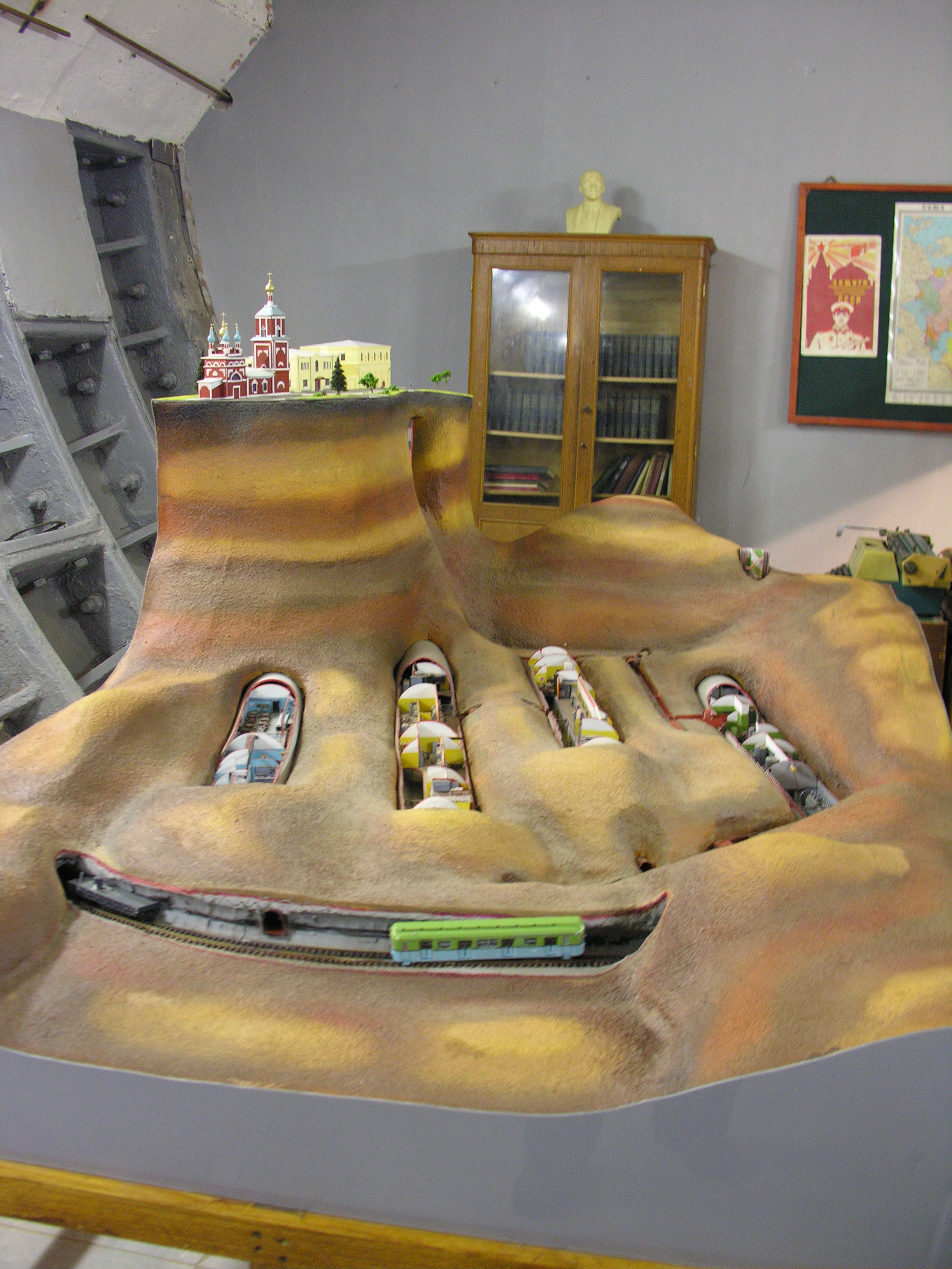 Location of ZKP Tagansky blocks, plastic model in the Cold War Museum, Moscow